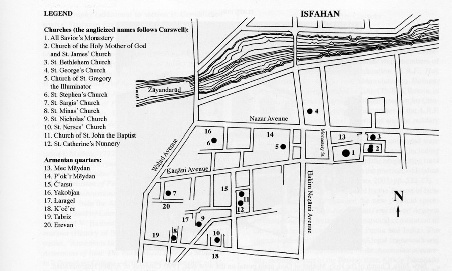 Map of New Julfa, drawing based planimetry, signed «Մտացածին գծագրութիւն ոմն հայրենասիրոյ» (Mtac'acin gcagrut'iwn yumemnē hayrenasirē -- lit. imaginary drawing by a patriot), 1829. After Karapetian, figs. 1 and 4.